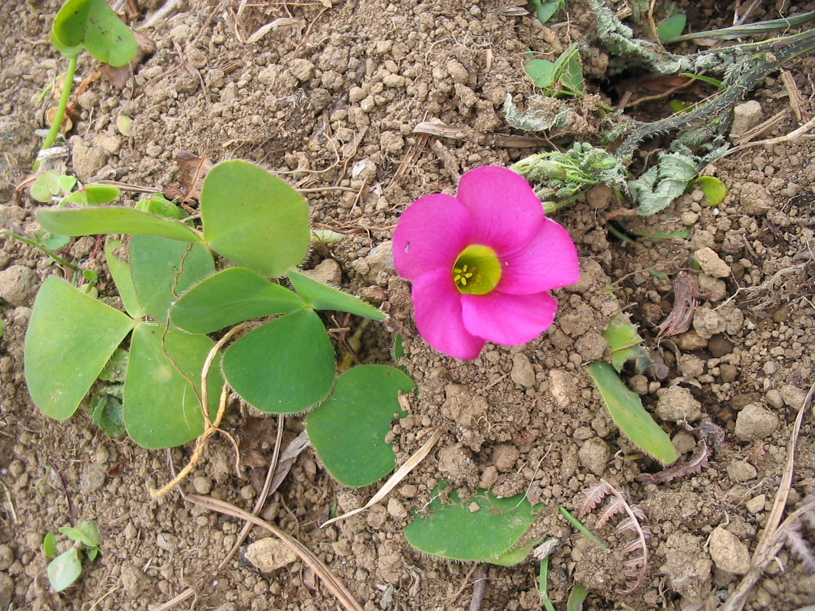 Purpurroter Sauerklee (Oxalis purpurea) - Habitus